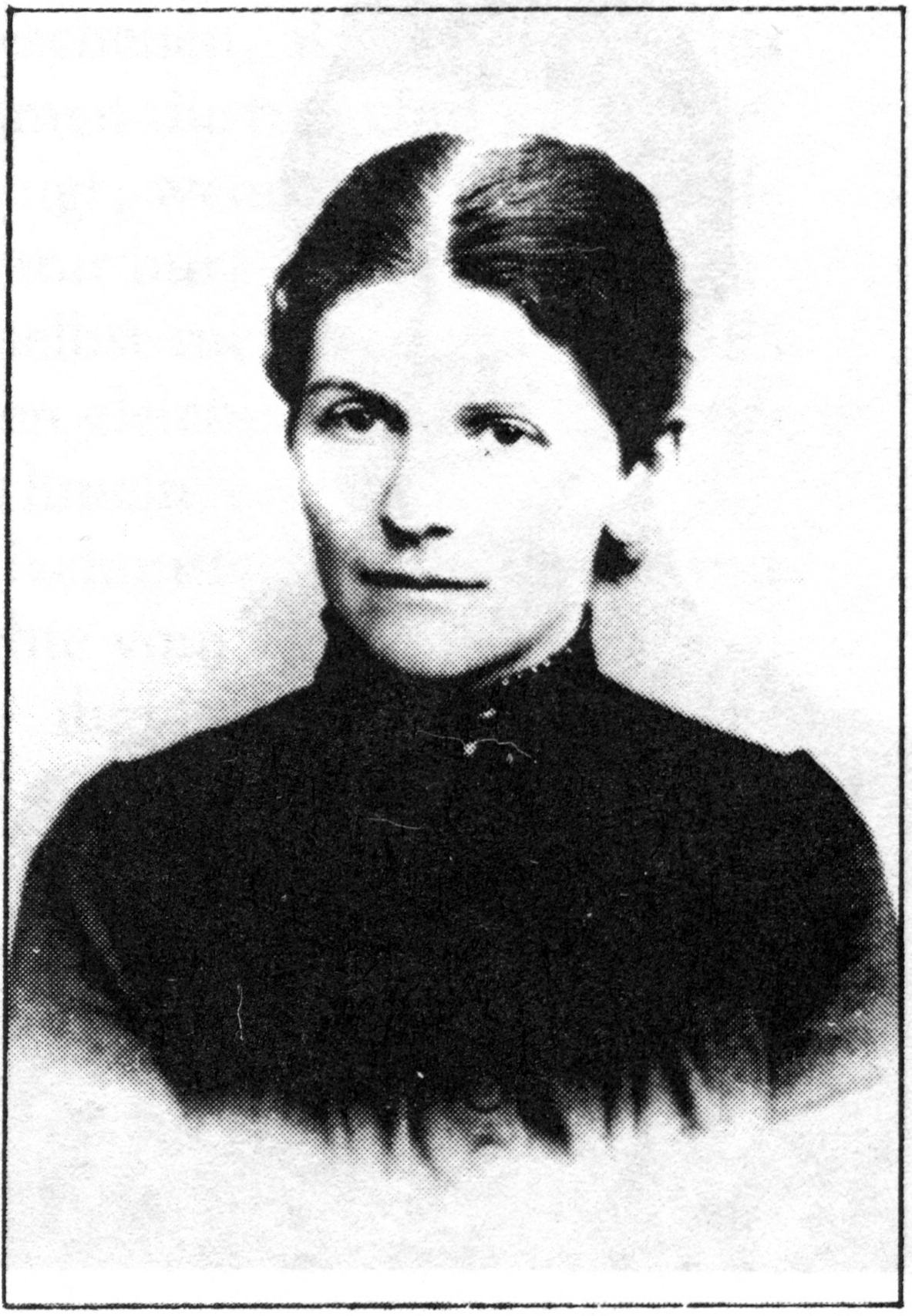 Marie Huch (1853-1934), born Marie Gerstäcker, shortly after her husband's suicide This image was uploaded to German wikipedia by wiki-contributor Budelmütze in 2016. It is now, in 2019, being copied to wiki-commons by wiki-contributor Charles01 for use in connection with a translation I am preparing. It is more than 100 years old. Quelle gemeinfrei als über 70 Jahre altes Werk einer juristischen Person, entsprechend Ergebnis der Urheberrechts-Diskussion